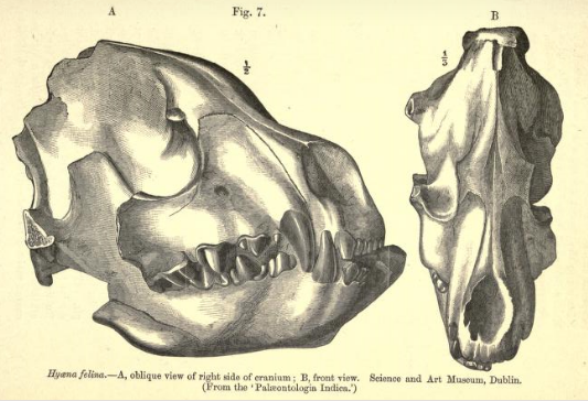 Skull of Crocuta silvanensis